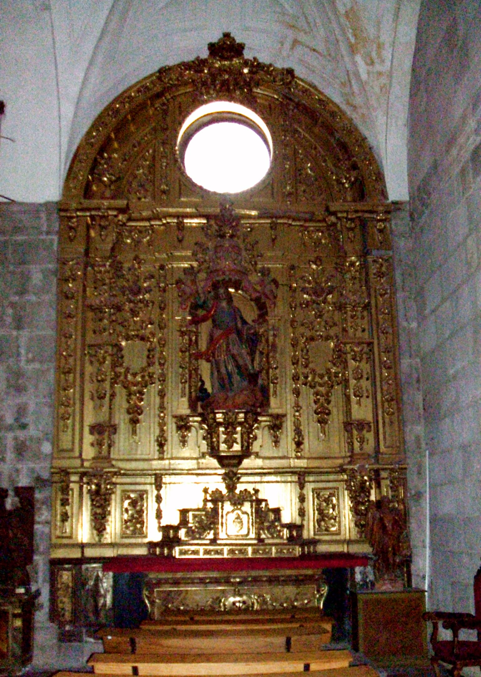 Capilla de San Miguel de la Catedral de Valladolid. España